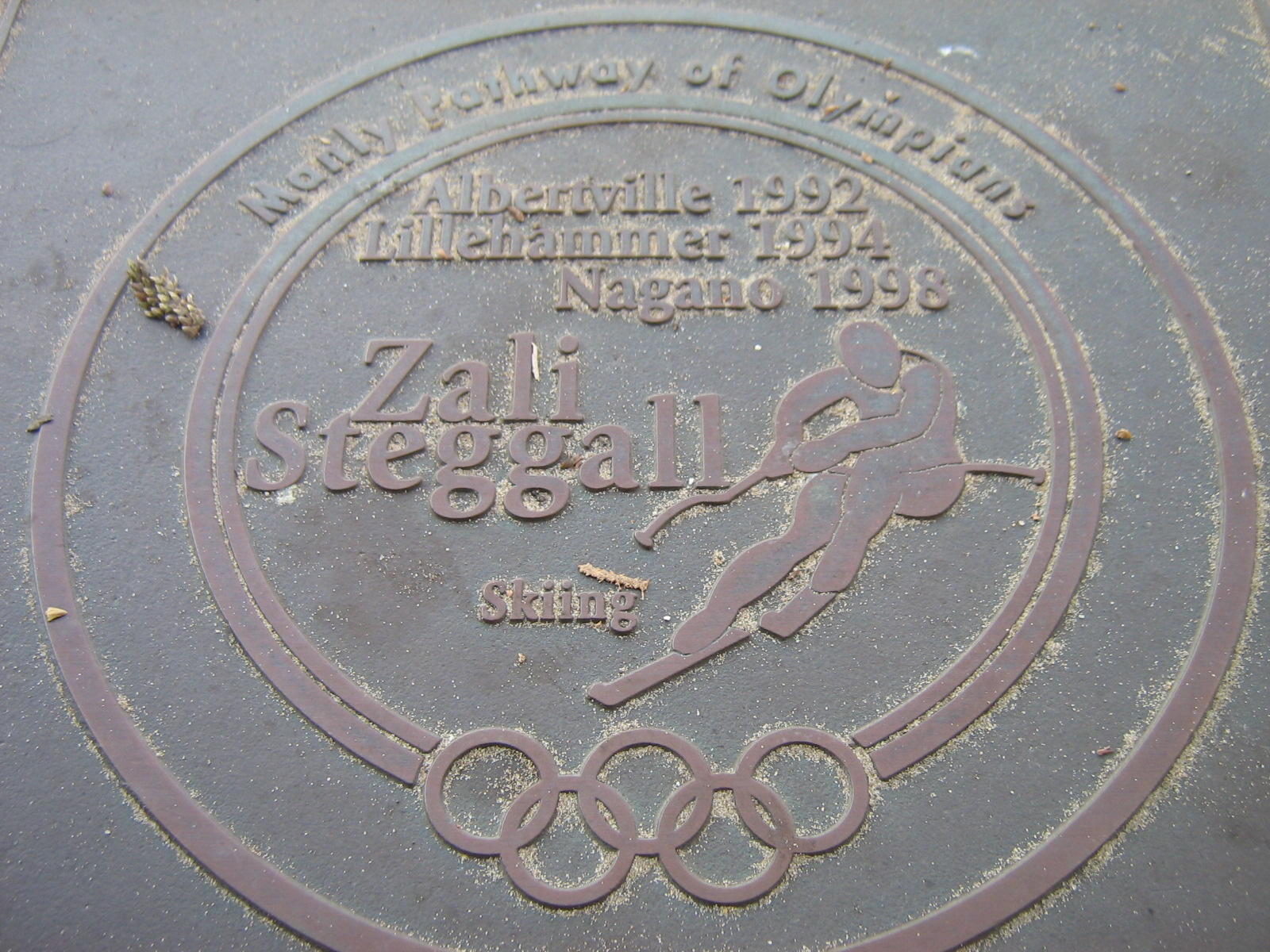 australian slalom wold champion zali steggall at the pathway of olympians in manly / new south wales